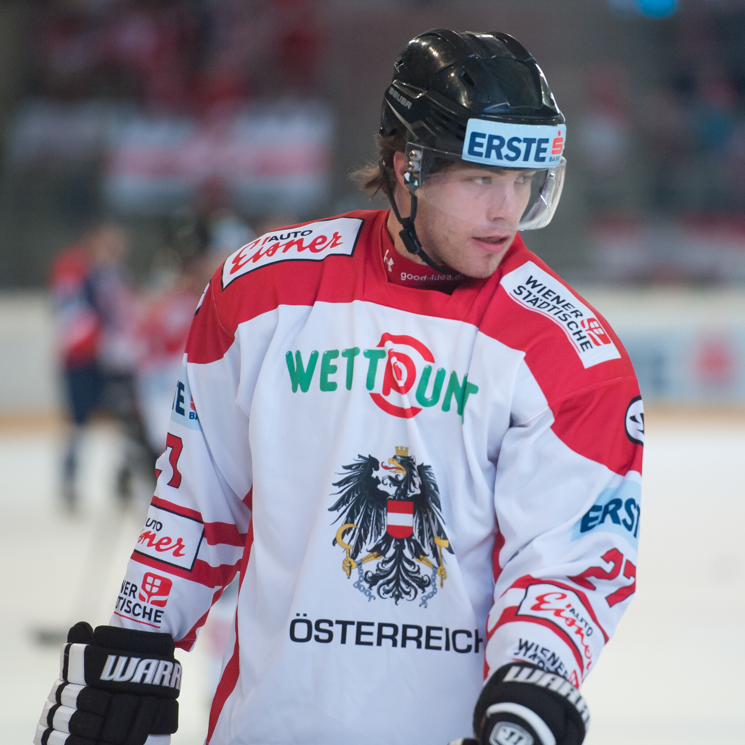 Euro Ice Hockey Challenge Vienna, February 7, 2015, Austria vs. Slovakia